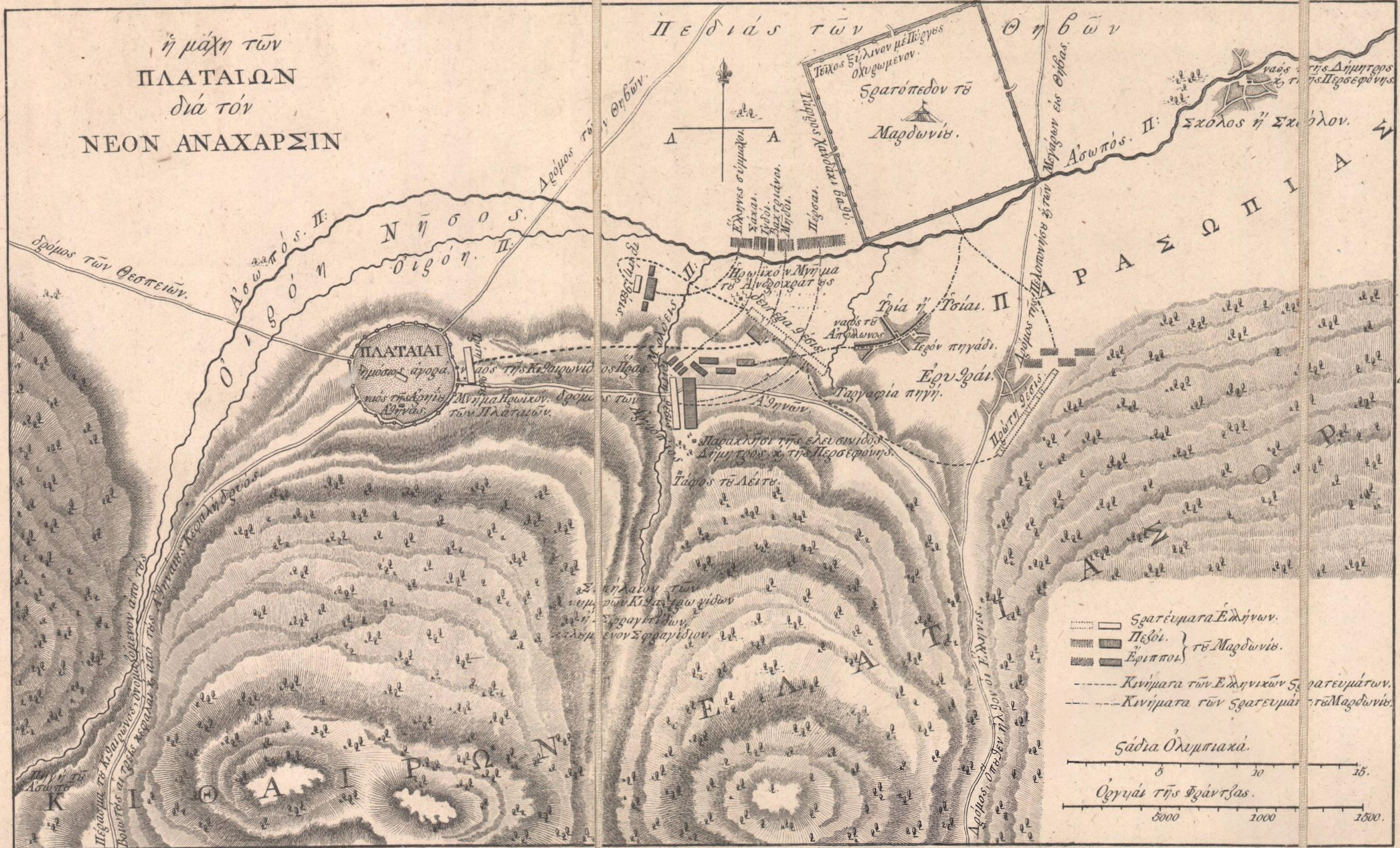 (Part 7 - Plataea) Charta of Greece / Rigas Charta, Rigas Velestinlis, 1797